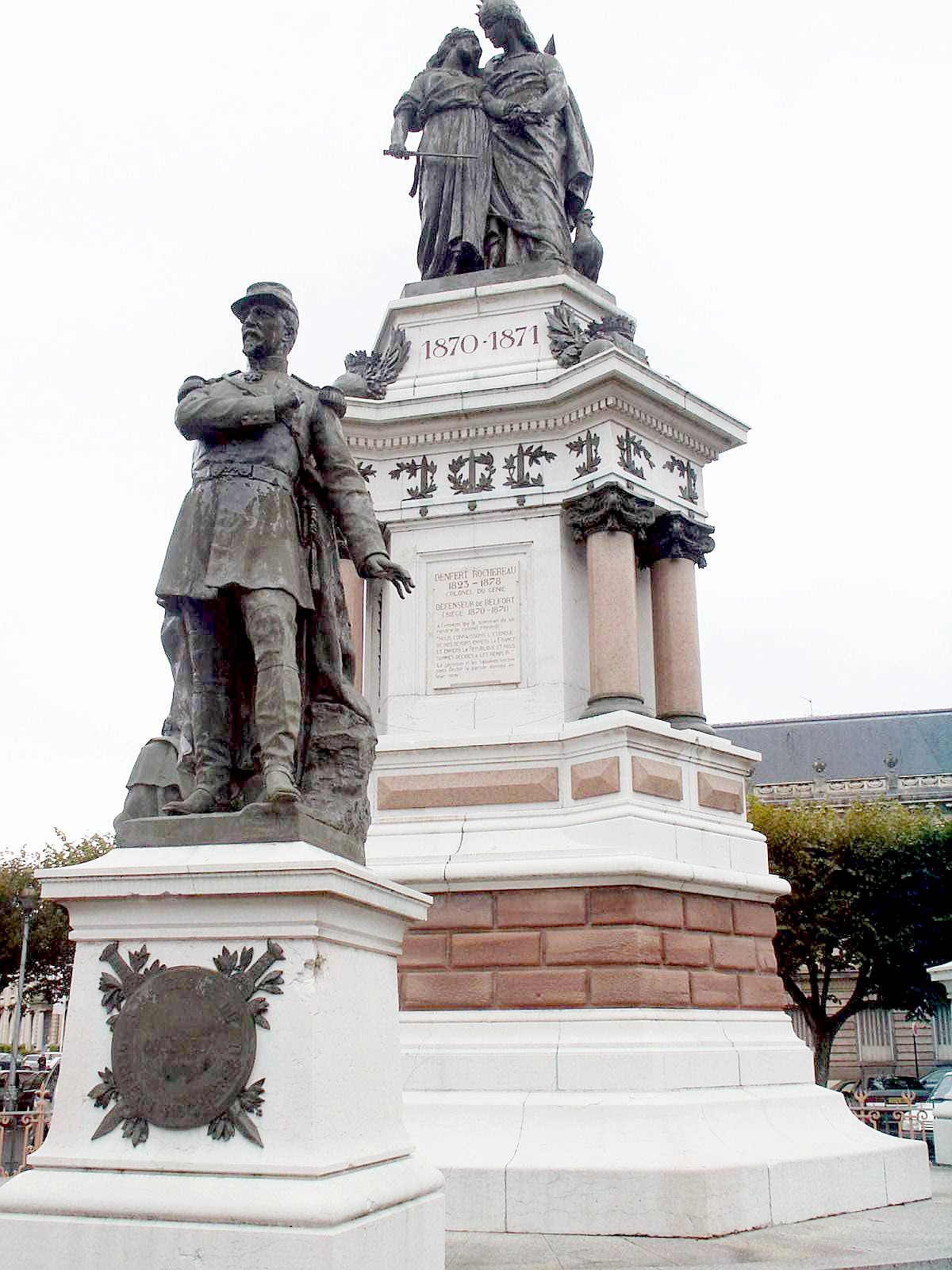 The statue of colonel Pierre Denfert-Rochereau on the Place of the Republic at Belfort.